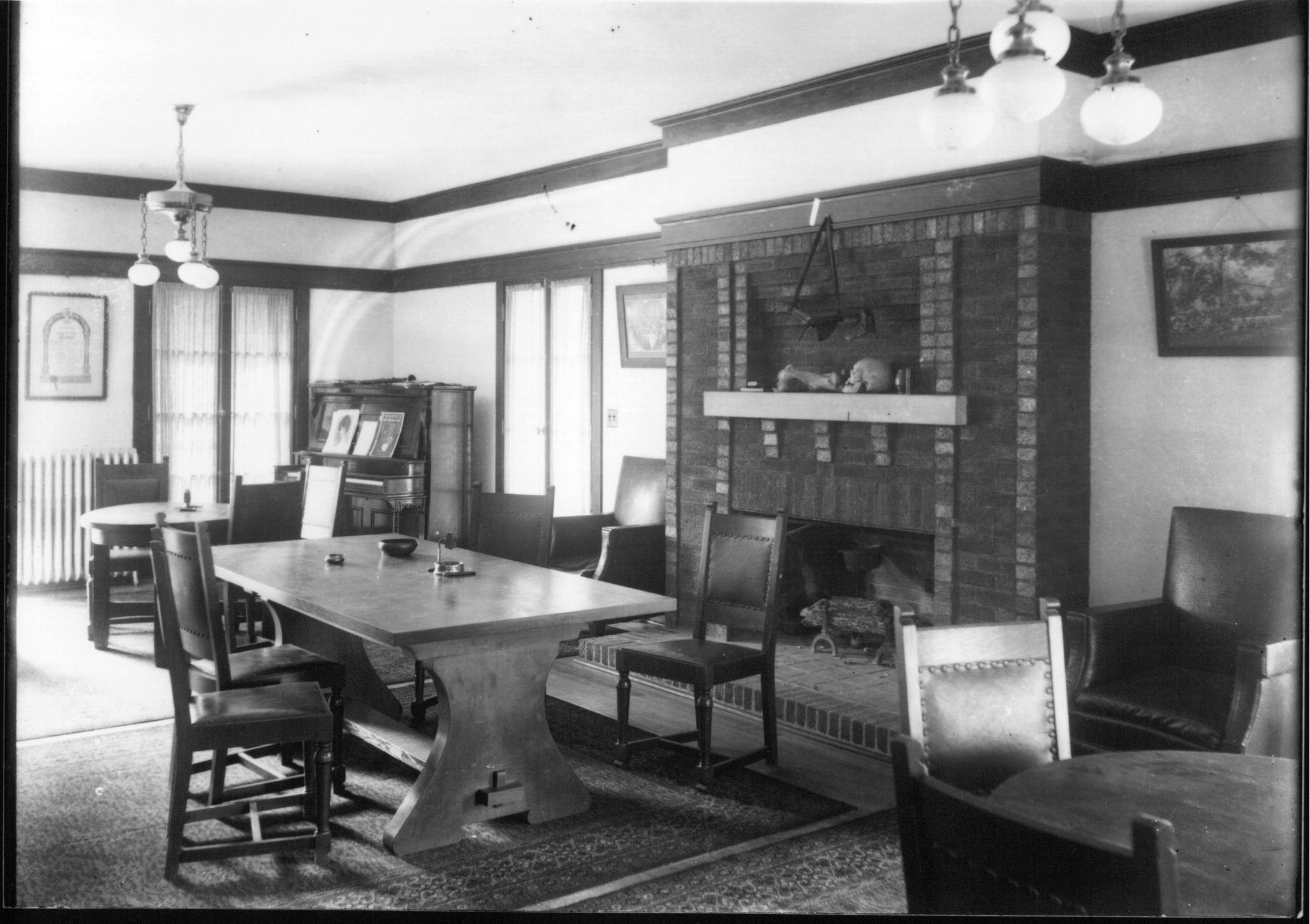 Persistent URL: Subject (TGM): Rooms and spaces; Interiors; Pianos; Musical instruments; Fireplaces; Parlors; Location: Oxford, Ohio